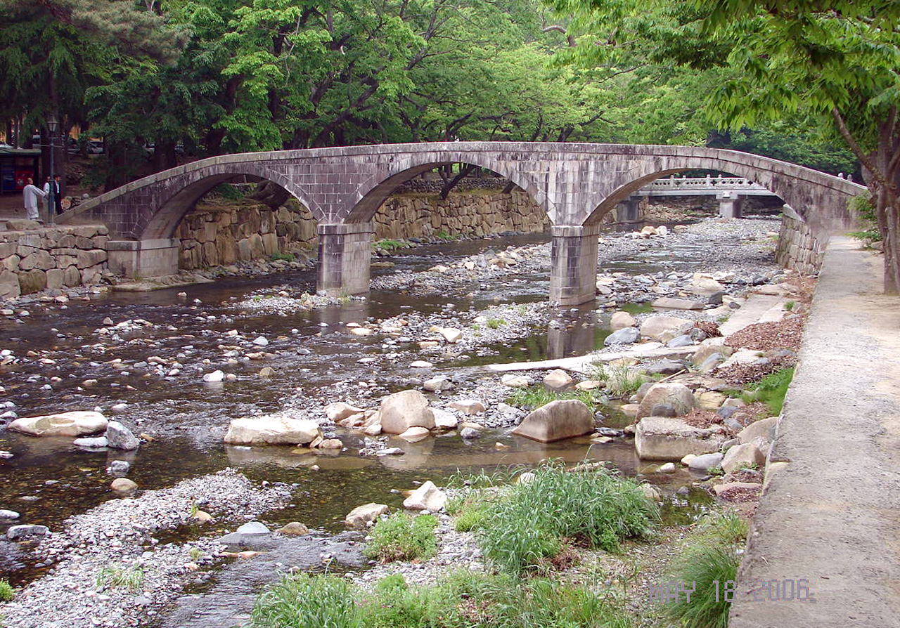 Samseongbanwol - (Three Arch Bridge) - meaning three stars and a half moon, sometimes called the "One Mind Bridge". The configuration of the Chinese letter is composed of four strokes, when apply the strokes to the name of the bridge, the long one stands for a half moon and the other, three stars.